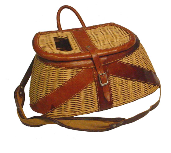 A wicker creel with leather trim and canvas strap, circa 1950s.